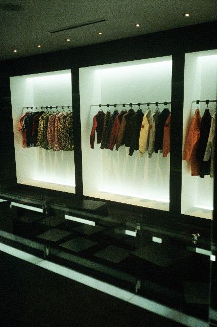 AndA store